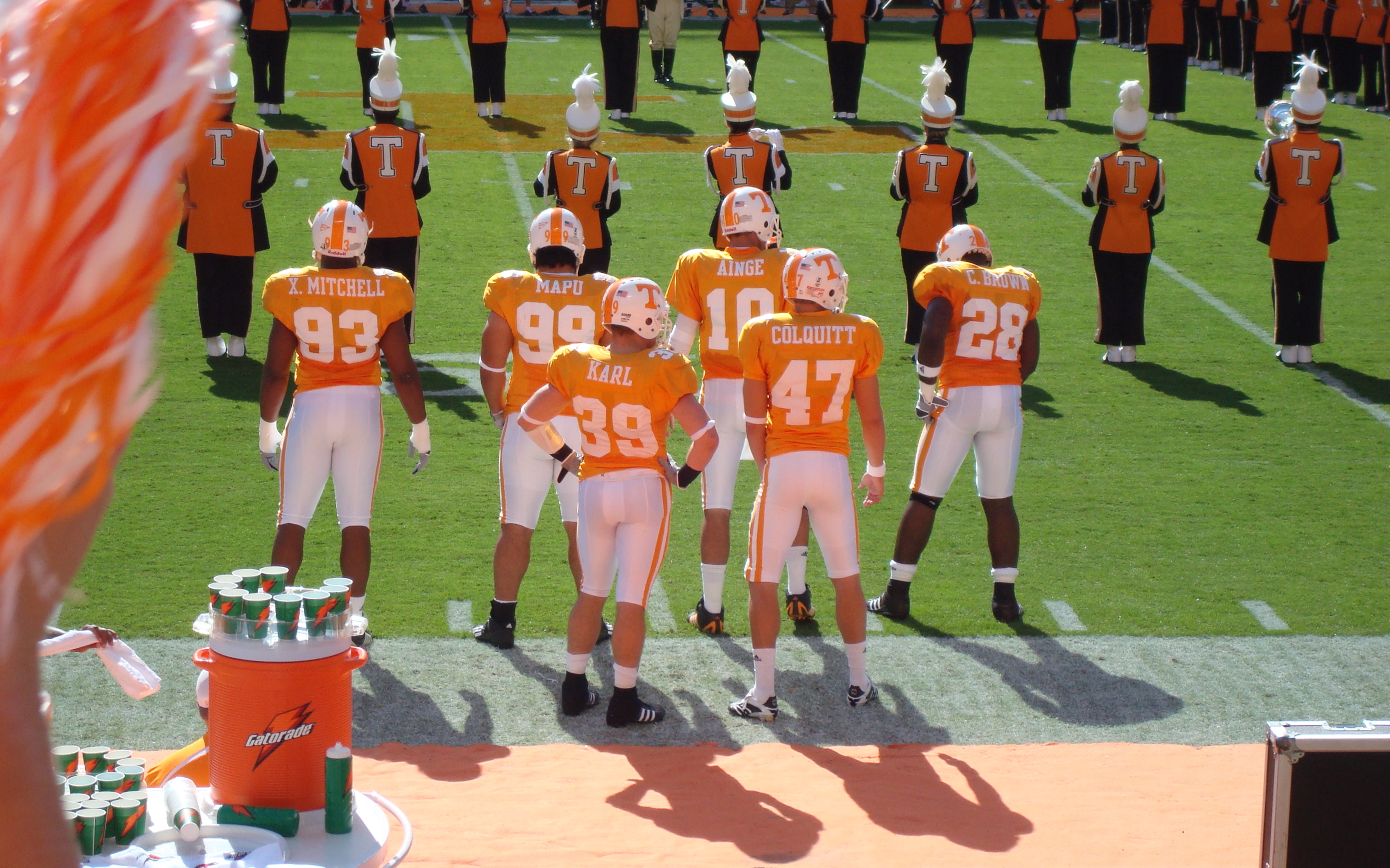 UT Captains prior to kickoff at the Georgia game in Neyland Stadium.